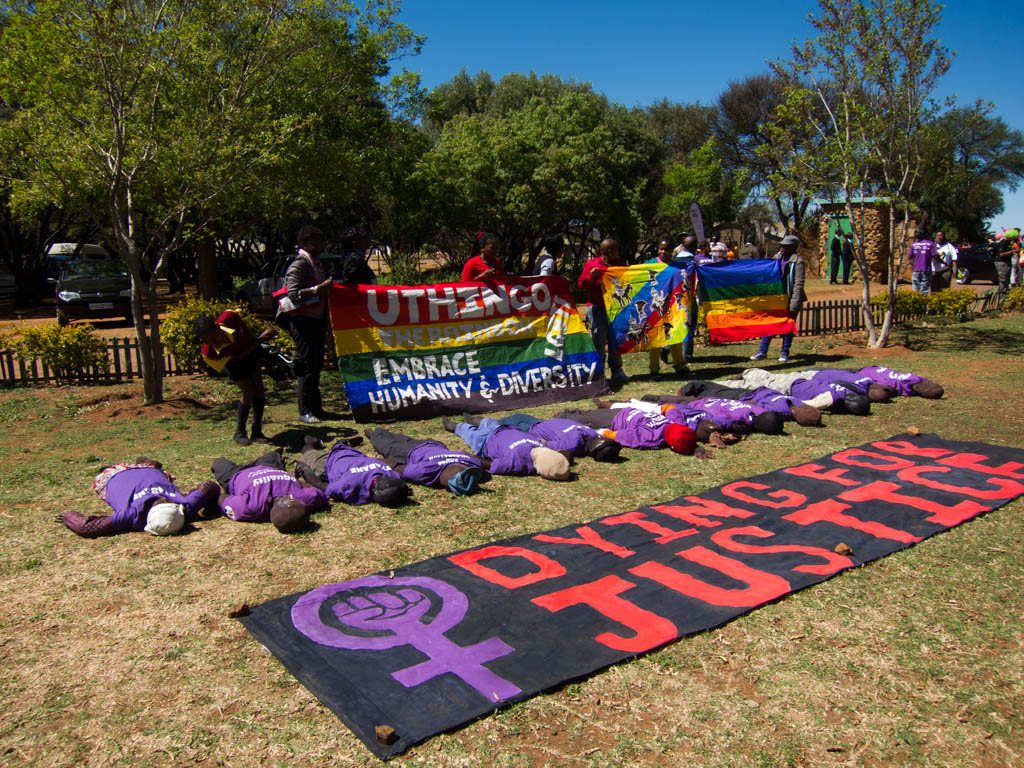 Soweto Pride 2012. The protest banner reads "Dying for Justice" and the T-shirts read "Solidarity with women who speak out".